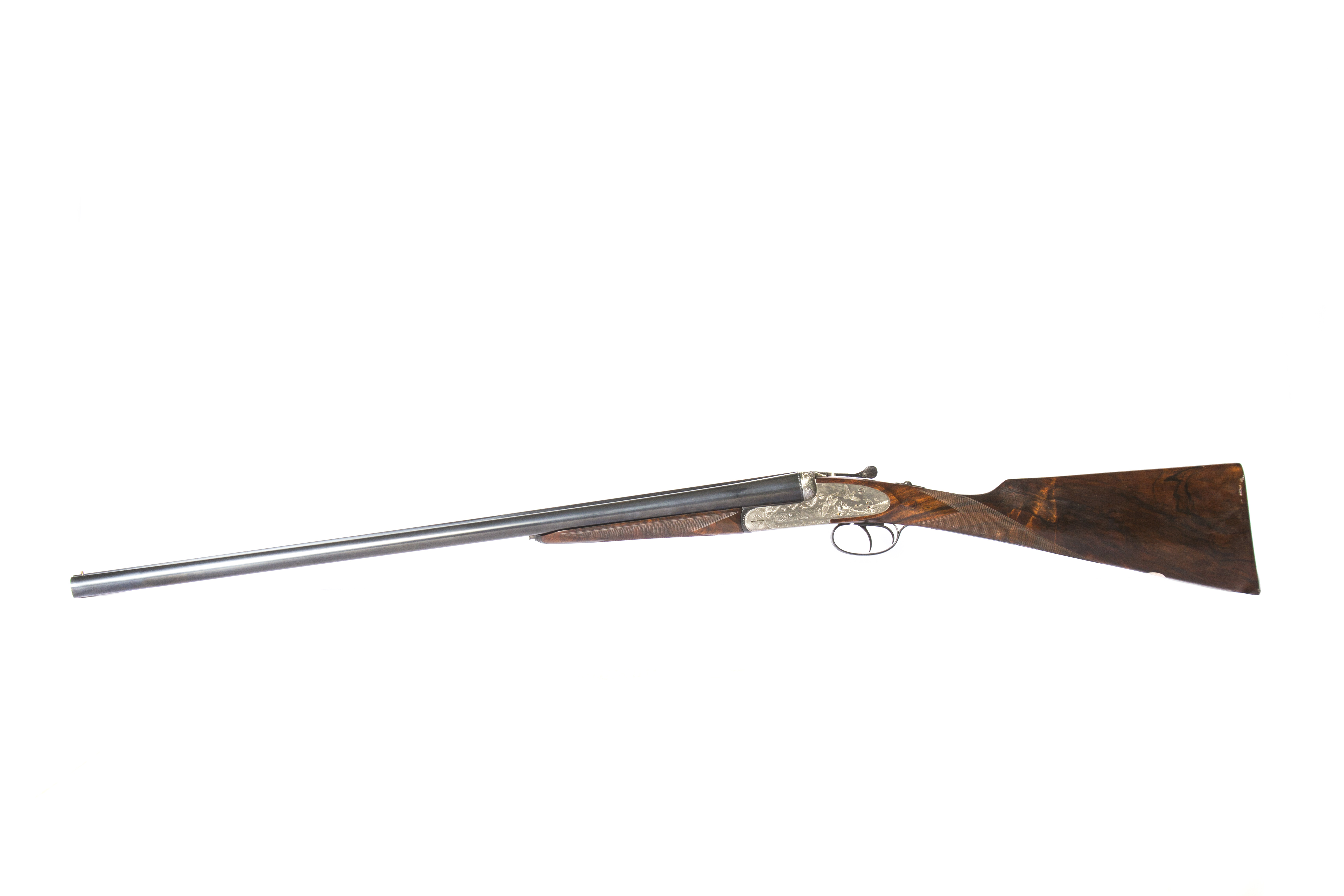 Forged steel scales with exhaust valves Demi Block cannons made of fine steel with a narrow list of concave sections and smooth bores. Selective automatic ejectors. Automatic opening type Holland & Holland. Dual keys safe with fine engraving done by hand. Two triggers with the first articulated. Selected fully hand finished walnut stock Finished in white.